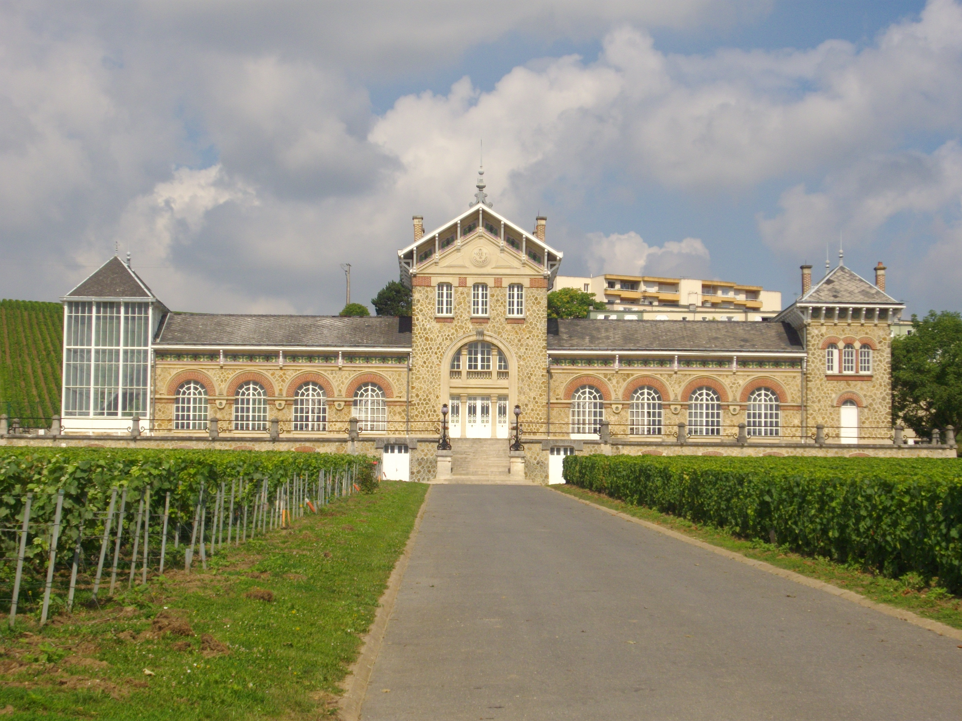 Chabrol fort in Épernay (Marne, France) .